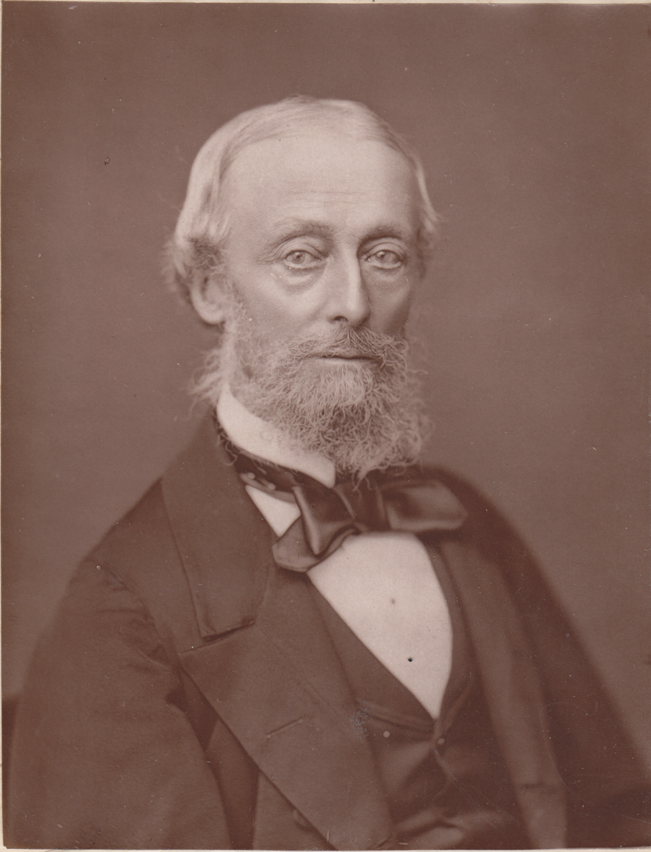 Image of Charles William Viner 1812 - 1906